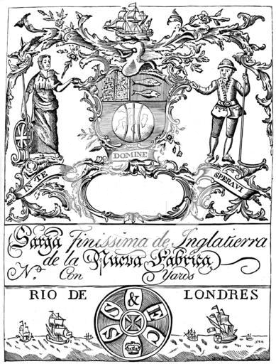 A trading label of the South Sea Company, showing the Company's armorials with Latin motto: In Te Domine Speravi ("In thee O Lord do I put my trust"), Psalm 70/71, verse 1, King James rendering. Text: Sarga Finissima de Inglatierra de la Nueva Fabrica ("The finest serge (fabric) of England of the the new fabric/making(?)") and Rio de Londres ("River of London"?). The letters below "S S & E C" circumscribing a seal are given differently as "S S & F G" on the lid of a surviving mother-of-pearl gaming box together the Company's arms, which was ordered from Canton, probably circa 1725, by some of the directors of the South Sea Company. (Neal, Bill, Chinese mother-of-pearl gaming counters[1]) The box contains several gaming counters similarly marked, one in the shape of oriental dragon's mouths. They may therefore stand for "South Sea and Fishery Company", the official name of the Company being "The Governor and Company of the Merchants of Great Britain, Trading to the South Seas and other parts of America, and for the Encouragement of Fishing". See also: image of "Cloth Seal, Company, 1711 - 1853, South Seas & Fisheries Company, found at Terminal Port, Portobelo, Panama, 37mm X 53mm, published at [2]. Catalogue entry: "Wheel-like, radiating motif with + in centre, and crown S S & F C around in the outer ring. See Geoff Egan, M.12 Fig.48 'Lead cloth seals and related items in the B.M.' (B.M.occ.papers 93)...The London finds are presumably accidental losses from cloths being dyed at the side of the Thames for the Company prior to export .... Other seals for this Company have been found in Texas and Tierra del Fuego...See also figure 2.11 Egan, G., 1991, Industry and Economics on the Medieval and later London Waterfront. In G.L. Good et al. (eds.), Waterfront Archaeology, Proceedings of the Third International Conference on Waterfront Archaeology held at Bristol 23-26 September 1988 (Council for British Archaeology Research Report 74), 9-18.